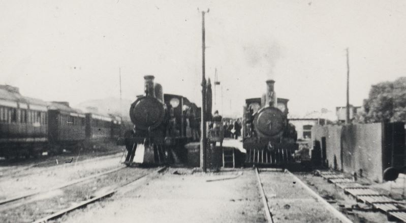 Narrow and broad gauge trains at Hamley Bridge on the left an S class loco (broad) and on the right a Y class loco (narrow), State Library of South Australia, B 26200